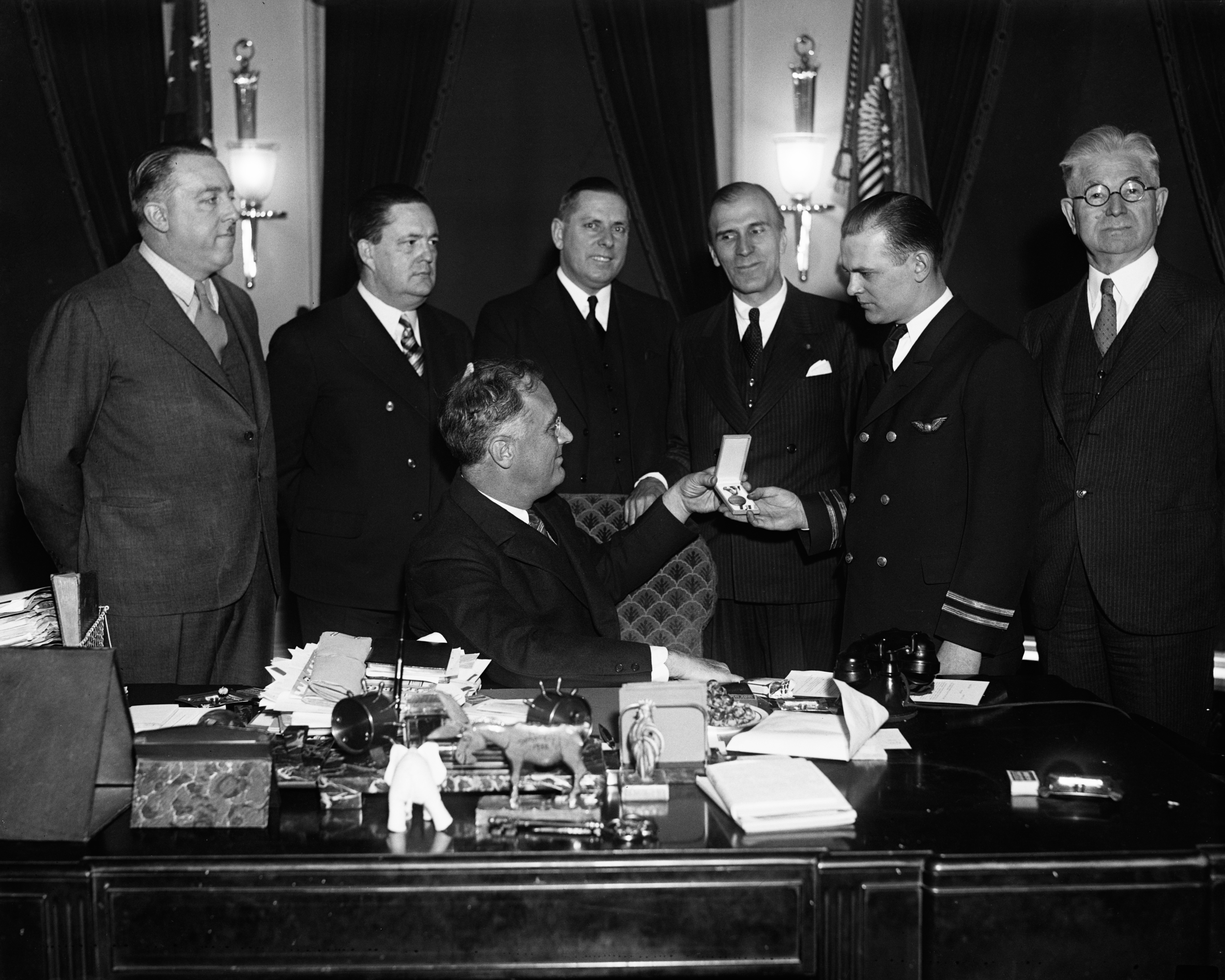 Air Mail pilot gets highest medal for bravery. Mal Freeburg, commercial airmail pilot, receives the Congressional Medal of Honor [sic, i.e. the Airmail Flyer's Medal of Honor] from the president and thus becomes the first air mail pilot ever to receive this award for acts of bravery during peace times. From the left: David L. Behncke, President of the Air Line Pilots Association; W.W. Howes, 2nd Assistant Postmaster General in charge of Airmail; Jesse Donaldson, Deputy to Mr. Howe; Rep. Clyde Kelley of Pa; President Roosevelt; Pilot Freeburg receiving medal and Stephen A. Cesler, Superintendent of Air Mails